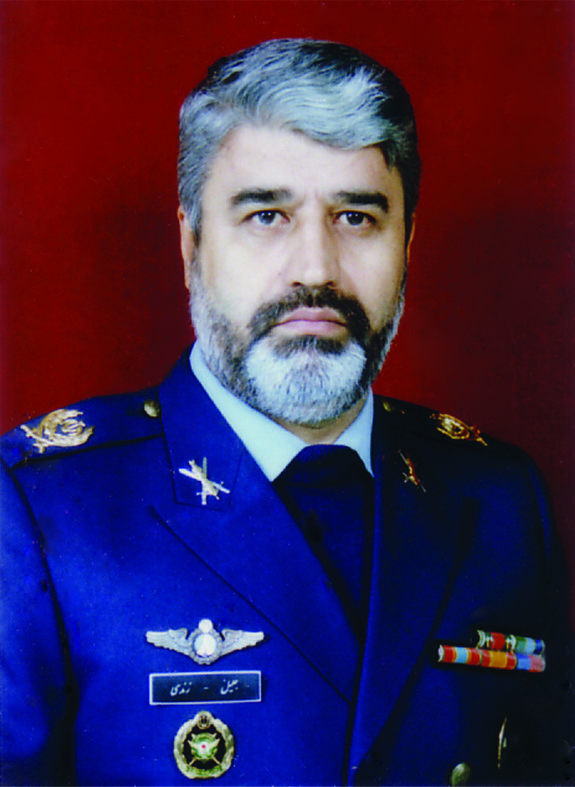 Brigadier General Jalil Zandi